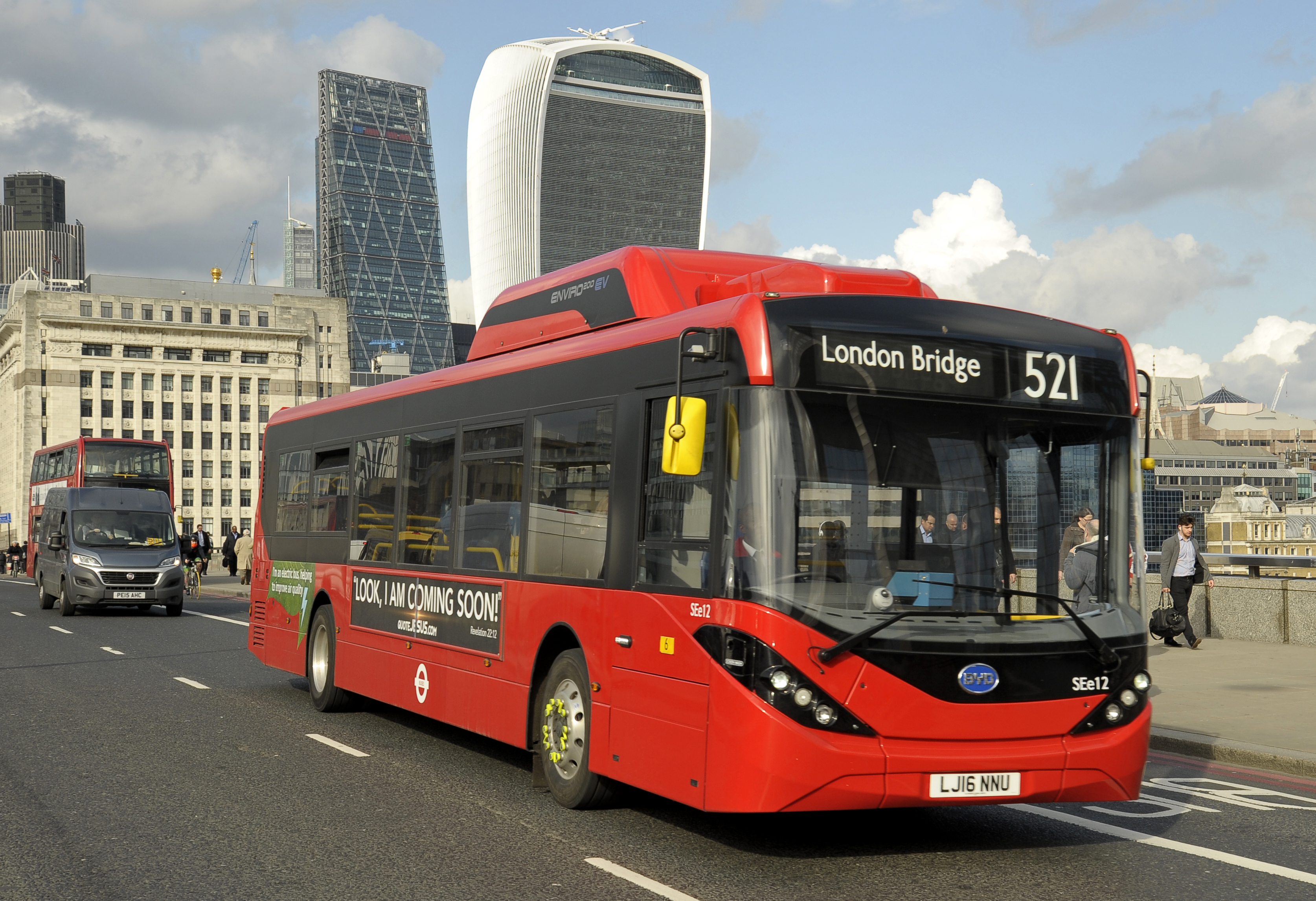 Go Ahead London LJ16NNU BYD Enviro200 SEe12 on London Bridge